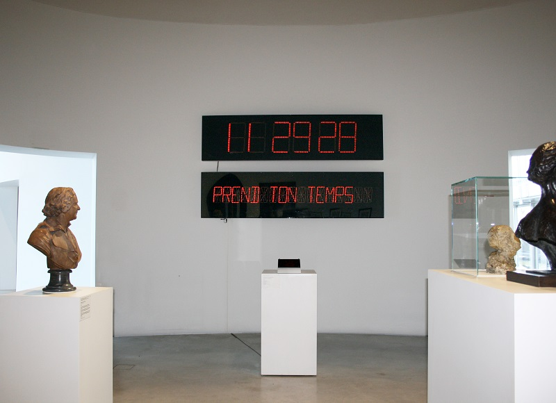 Louvre permanent exposition